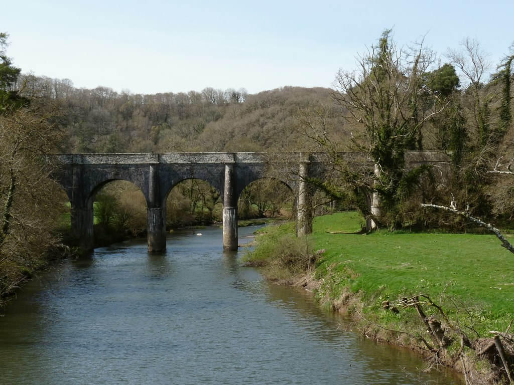 Beam Aqueduct, Great Torrington, Devon, viewed from north (downstream). This aquaduct carried the Rolle Canal over the River Torridge